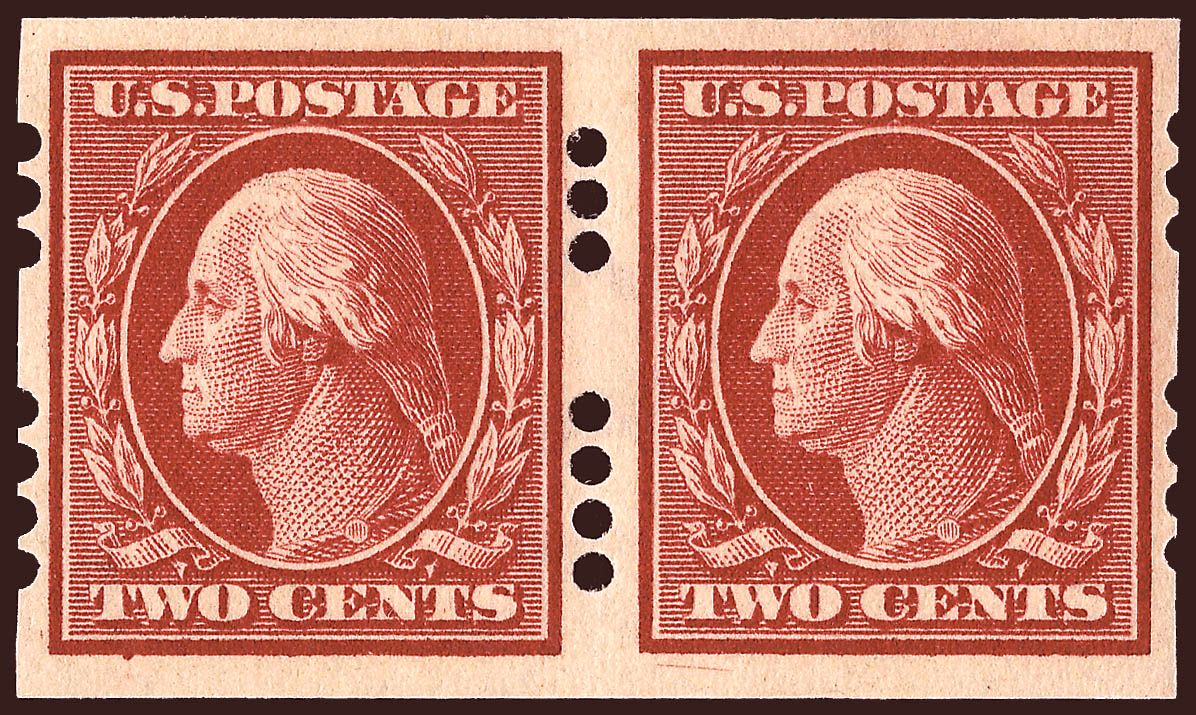 US Postage stamp, 1910 issue, coil pair w/Farwell perforations, red, 'two' cent.